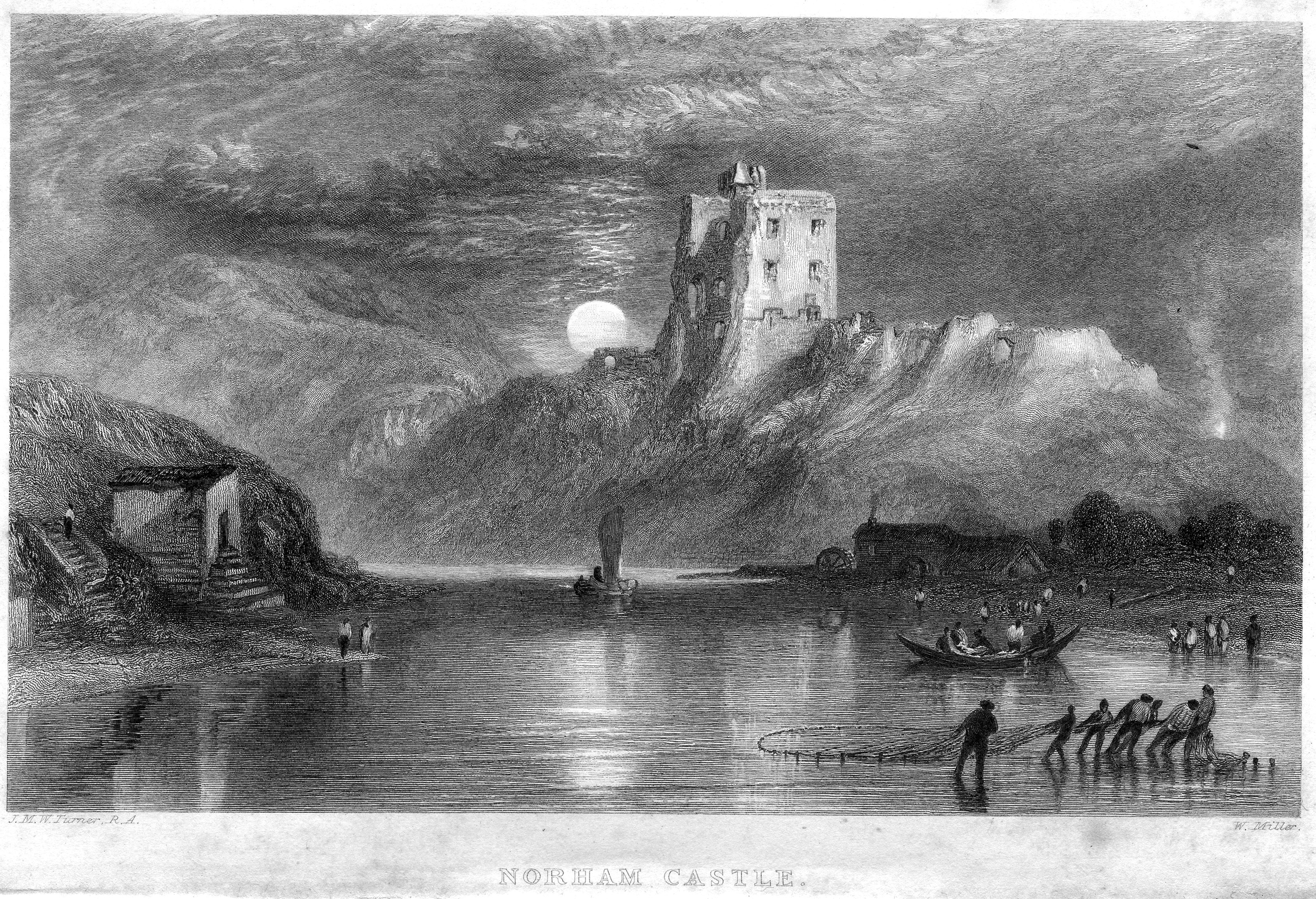 Norham Castle, Moonrise (Rawlinson 522) engraving by William Miller after Turner, published in The Miscellaneous Prose Works of Sir Walter Scott, Bart. Embellished with Portraits, Frontispieces, Vignette Titles and Maps. The Designs of the Landscapes from Real Scenes by J.M.W. Turner, R.A.. Edinburgh: Robert Cadell, Edinburgh; Whitaker, Arnot, and Company, London; John Cumming, Dublin 1834 - 1836